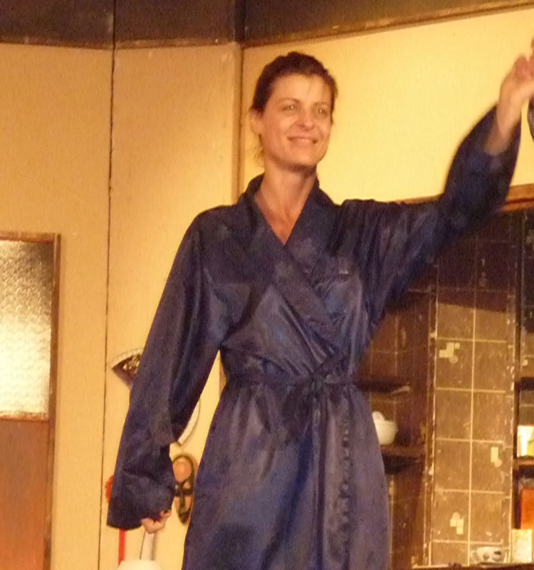 Eugenia Tobal